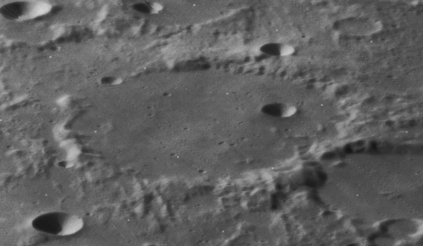 Oblique view of Arnold, facing west, on the moon.